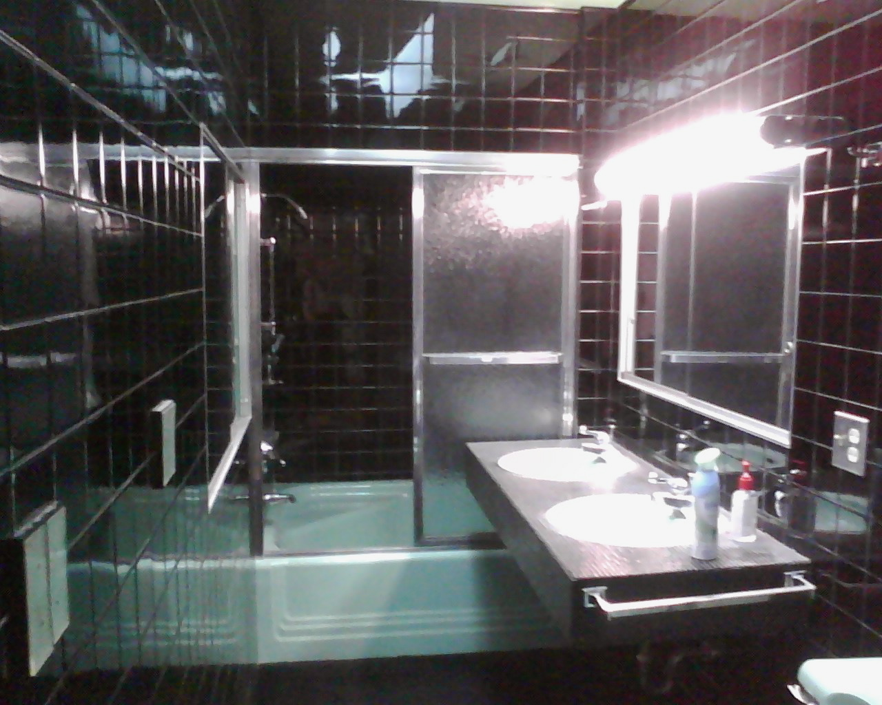 Big Dorothy's famous bathroom, remodeled in the 1970s, kept as it appeared at the time of the raid. Bathtub is twice the width of a standard bathtub. Building once housing "Big Dorothy" Baker's brothel